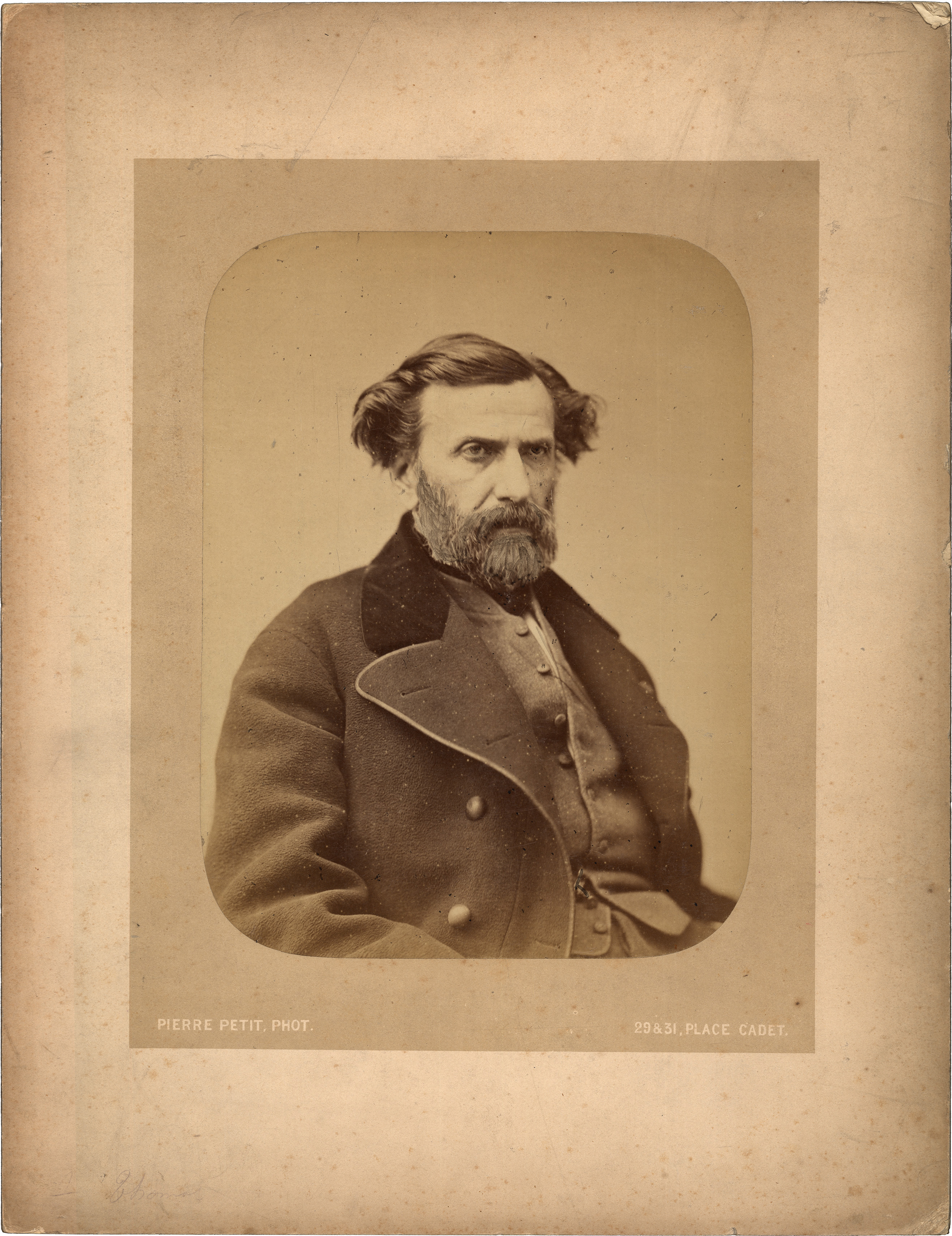 Portrait of Ambroise Thomas, composer (1811-1896). Photo by Pierre Petit, before 1896.